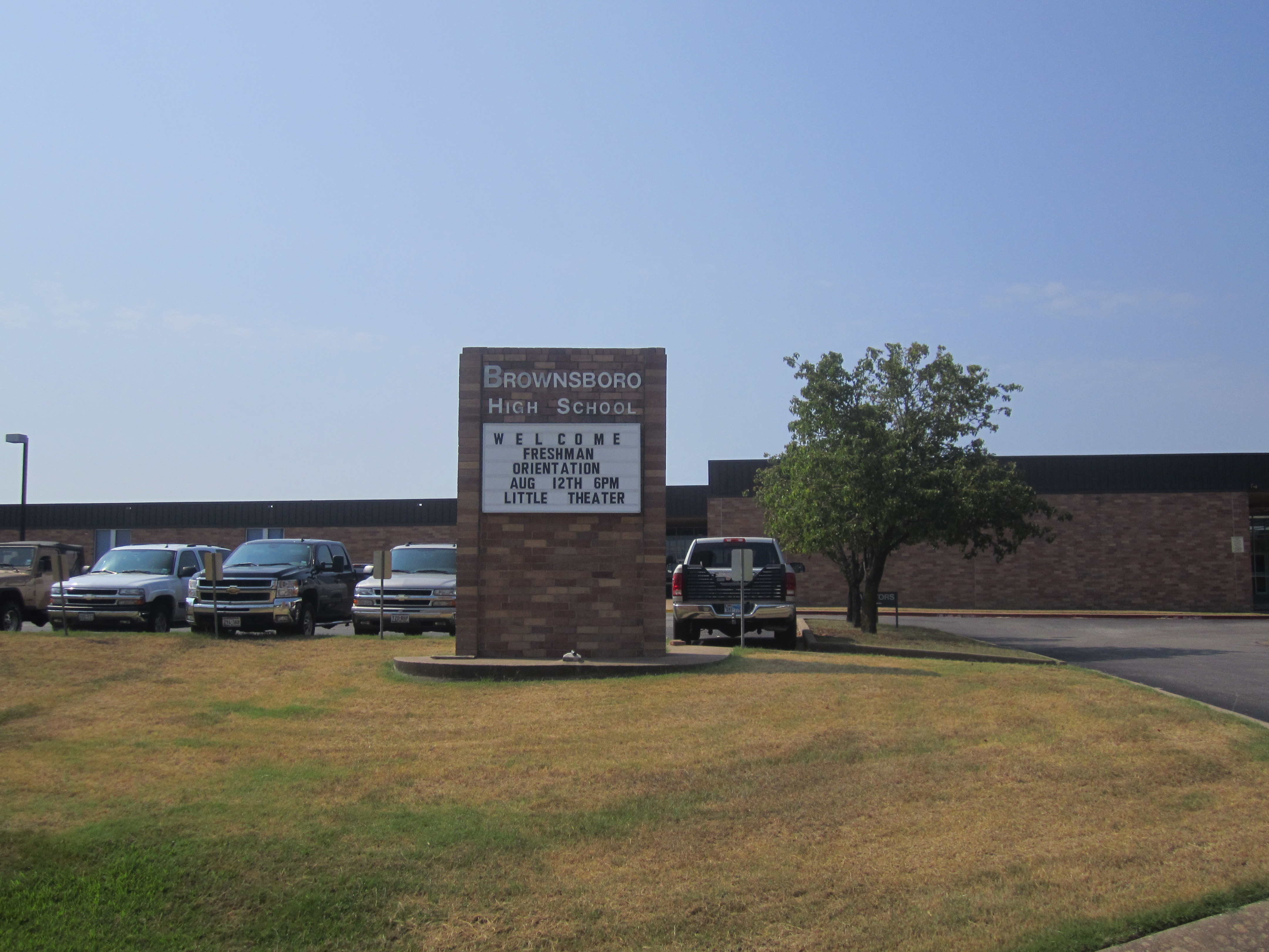 I took photo with Canon camera in Brownsboro, Texas.